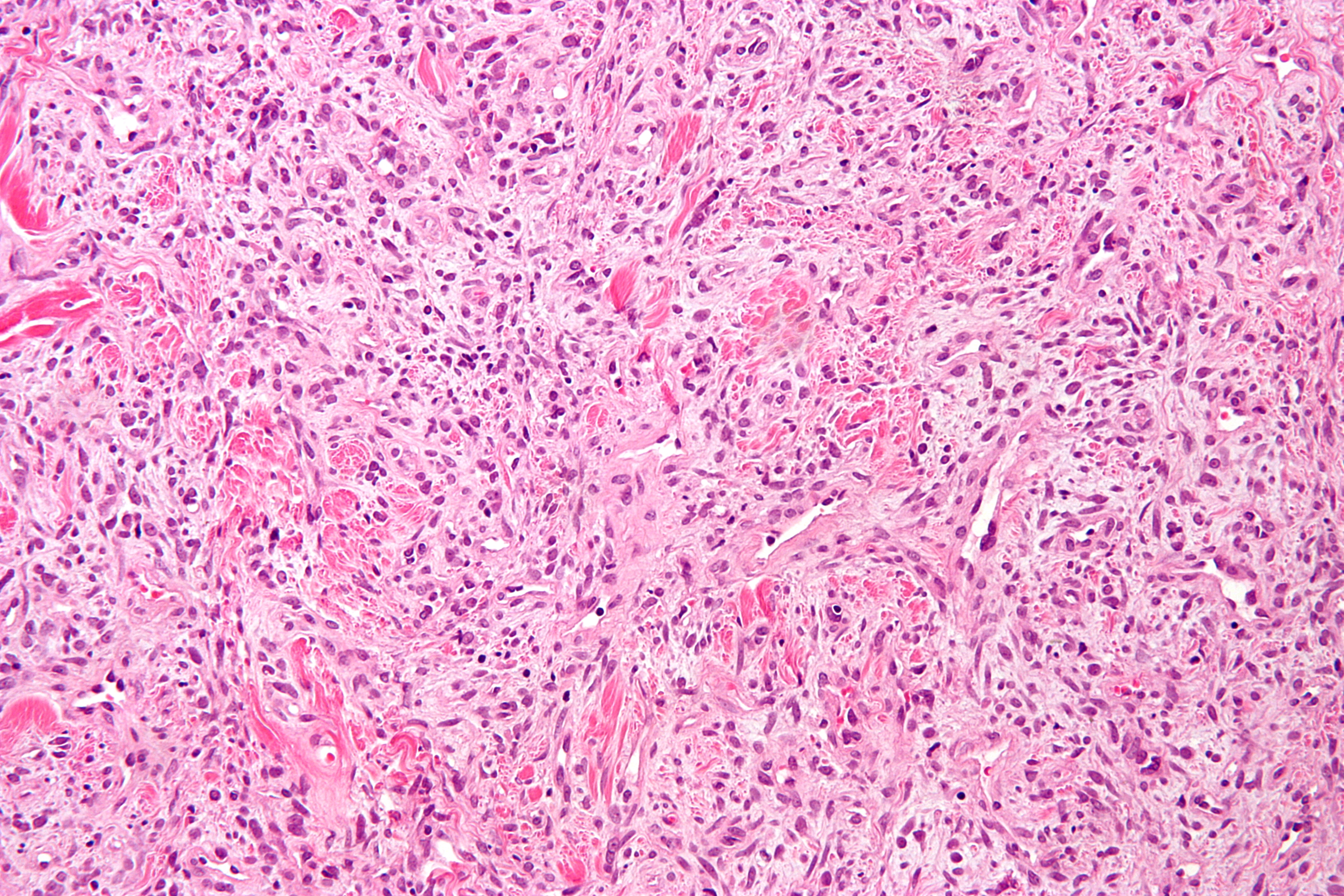 Intermediate magnification micrograph of a solitary fibrous tumour. H&E stain. Features: Well-circumscribed. Fibroblast-like cells. Hemangiopericytoma-like area (staghorn vessels). Keloid-like collagen bundles. Related images Low mag. High mag.